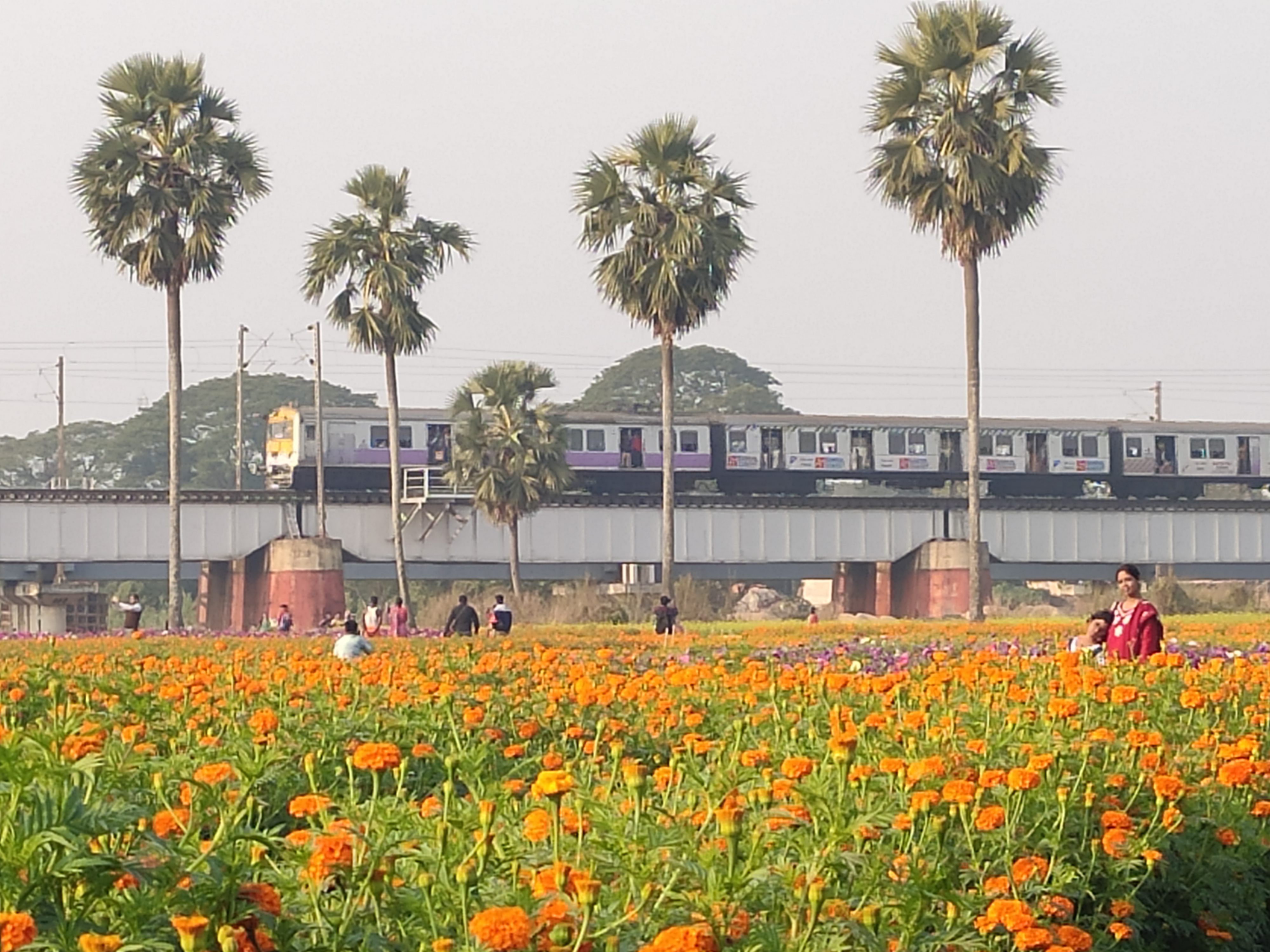 Flower Garden